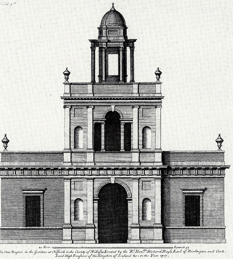 The Bagnio or Casino at Chiswick designed by Lord Burlington and Colen Campbell